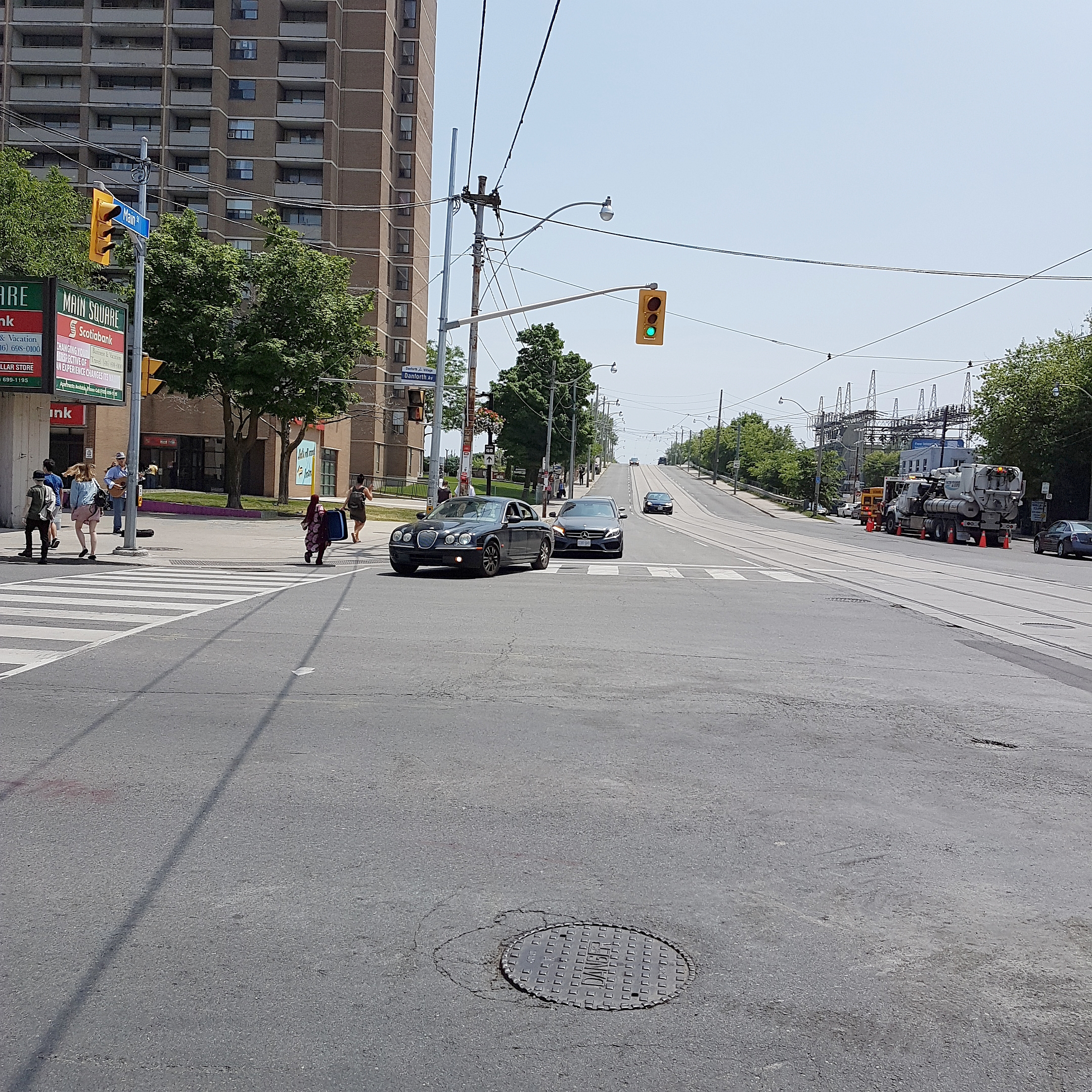 Looking south on Main Street at Danforth Avenue in Toronto.